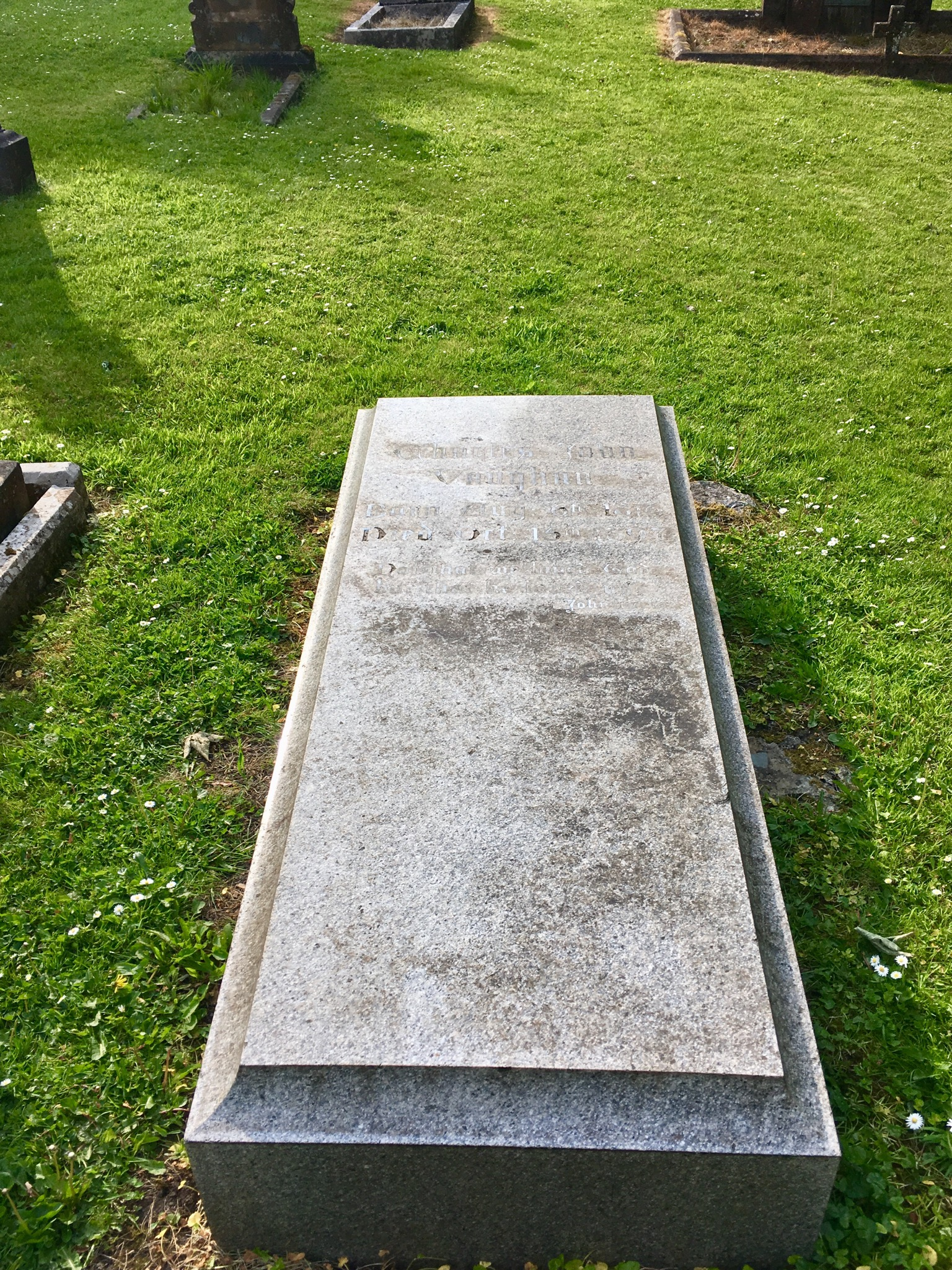 Graves in Llandaff churchyard, May 2020